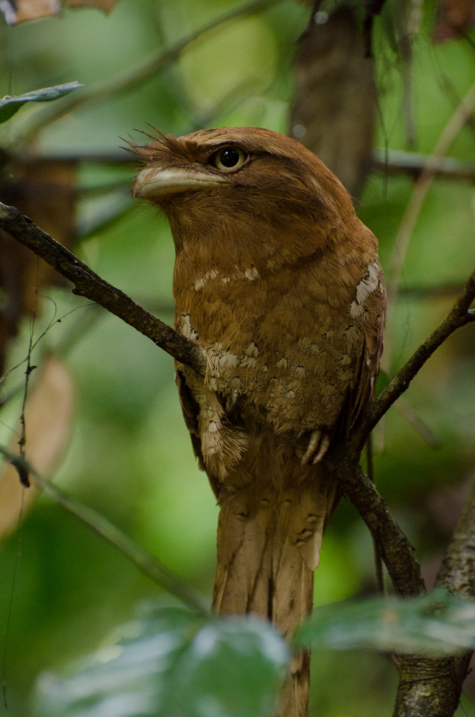 Sri Lanka Frogmouth Batrachostomus moniliger, Thattekkad, Kerala, India